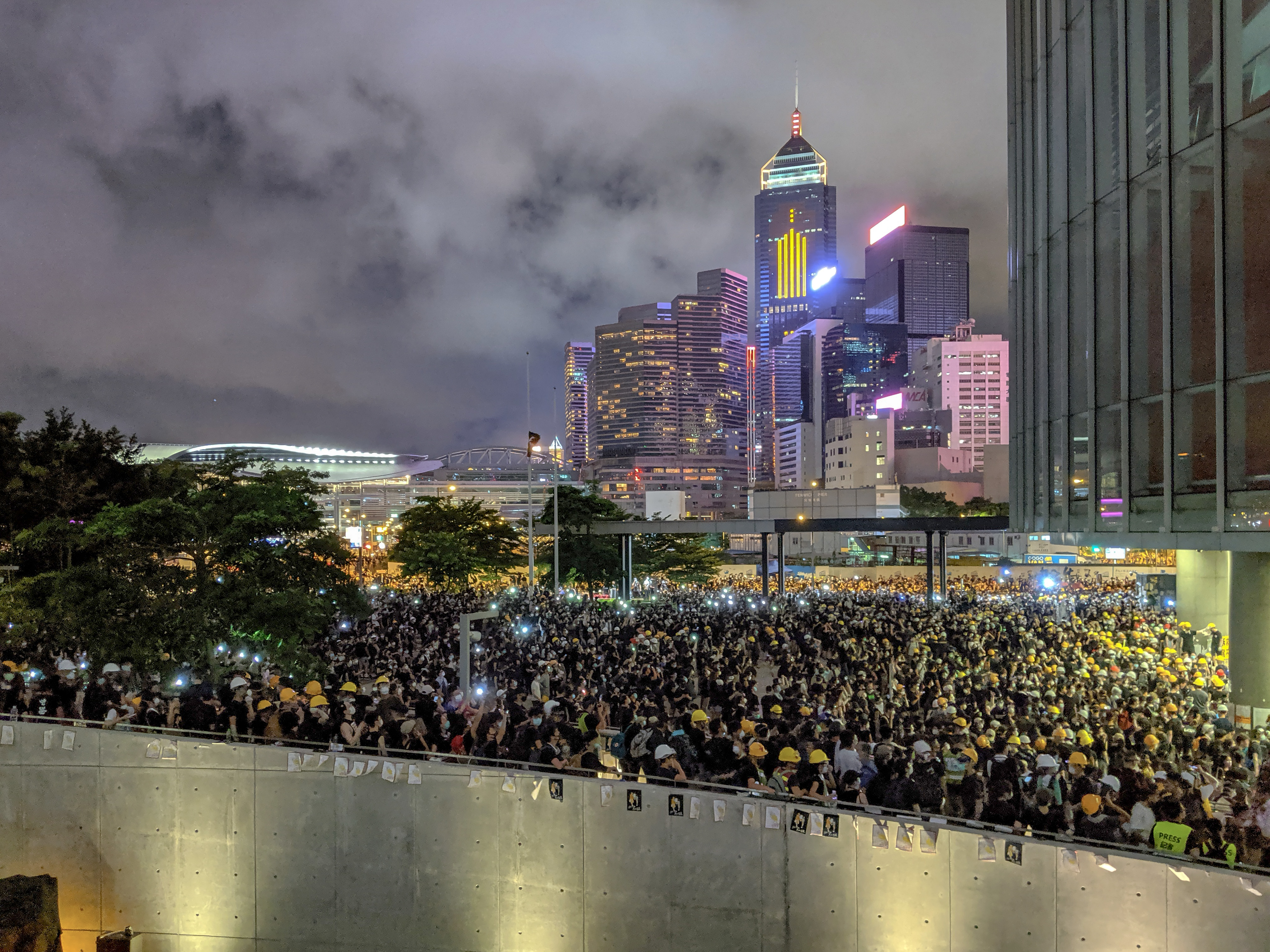 2019 Hong Kong anti-extradition law protest on 1 July 2019, captured by Studio Incendo from Flickr.